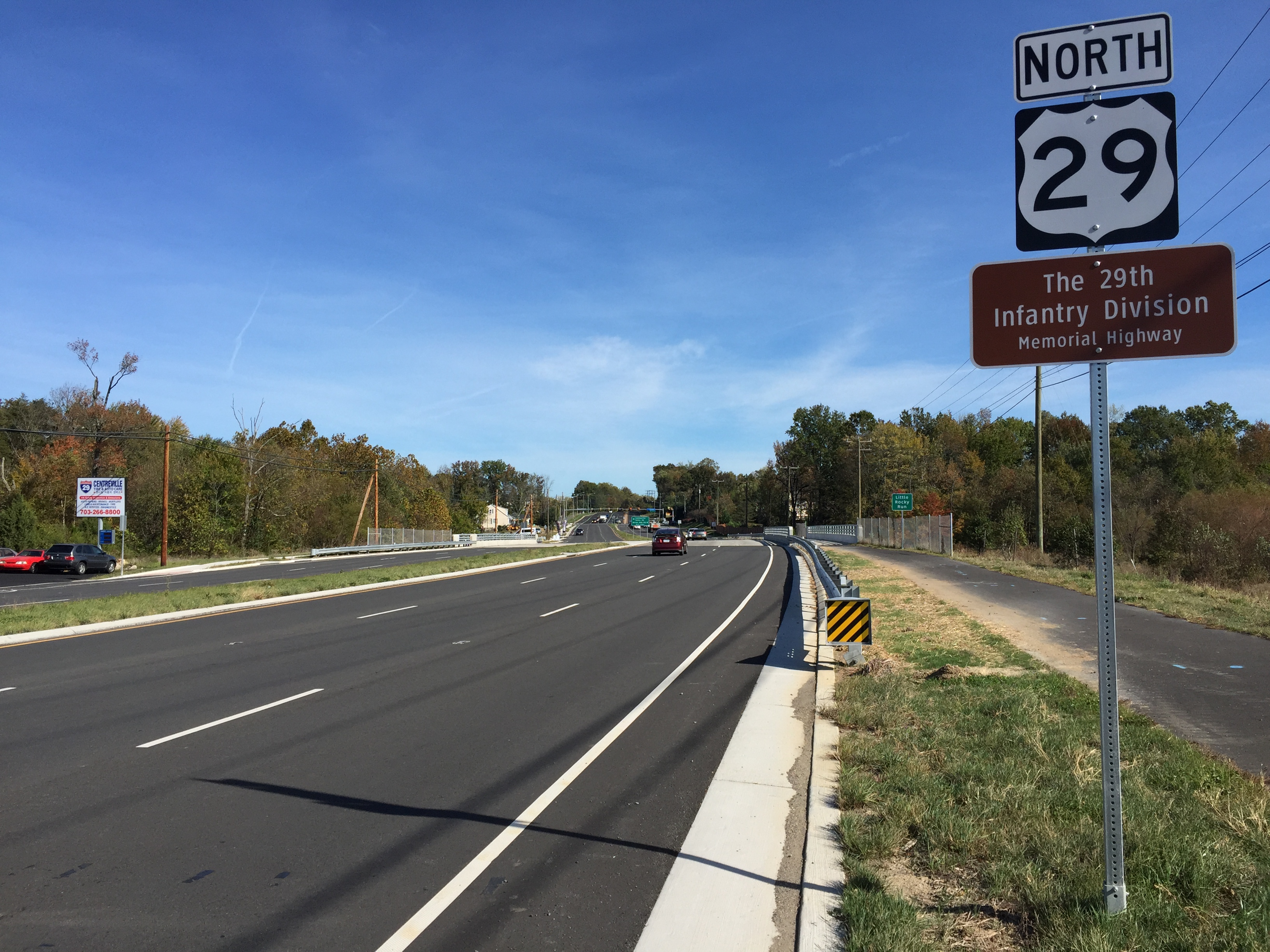 View north along U.S. Route 29 (Lee Highway) between Pickwick Road and Union Mill Road/Centreville Farms Road in Centreville, Fairfax County, Virginia